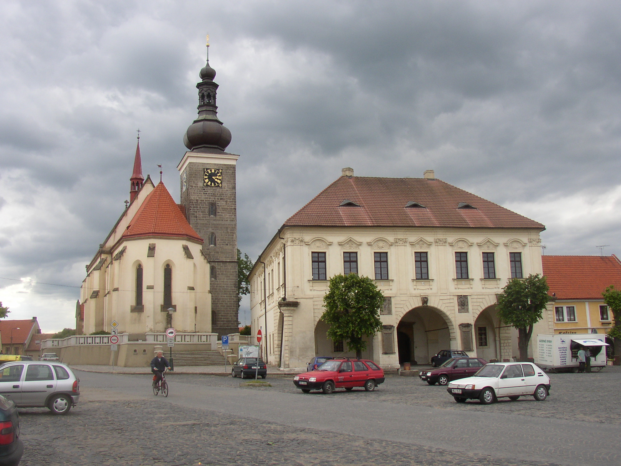 The Town hall and St Catherine church in Velvary, Czech Republic.